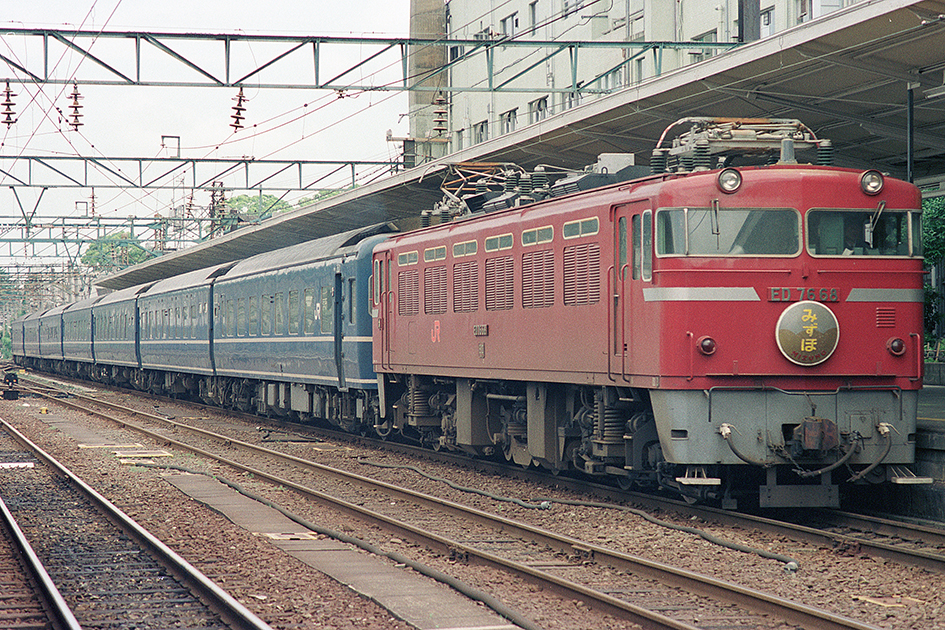 JNR Class ED76 electric locomotive ED76 68 on a Mizuho sleeping car service at Kumamoto Station in Kyushu, Japan